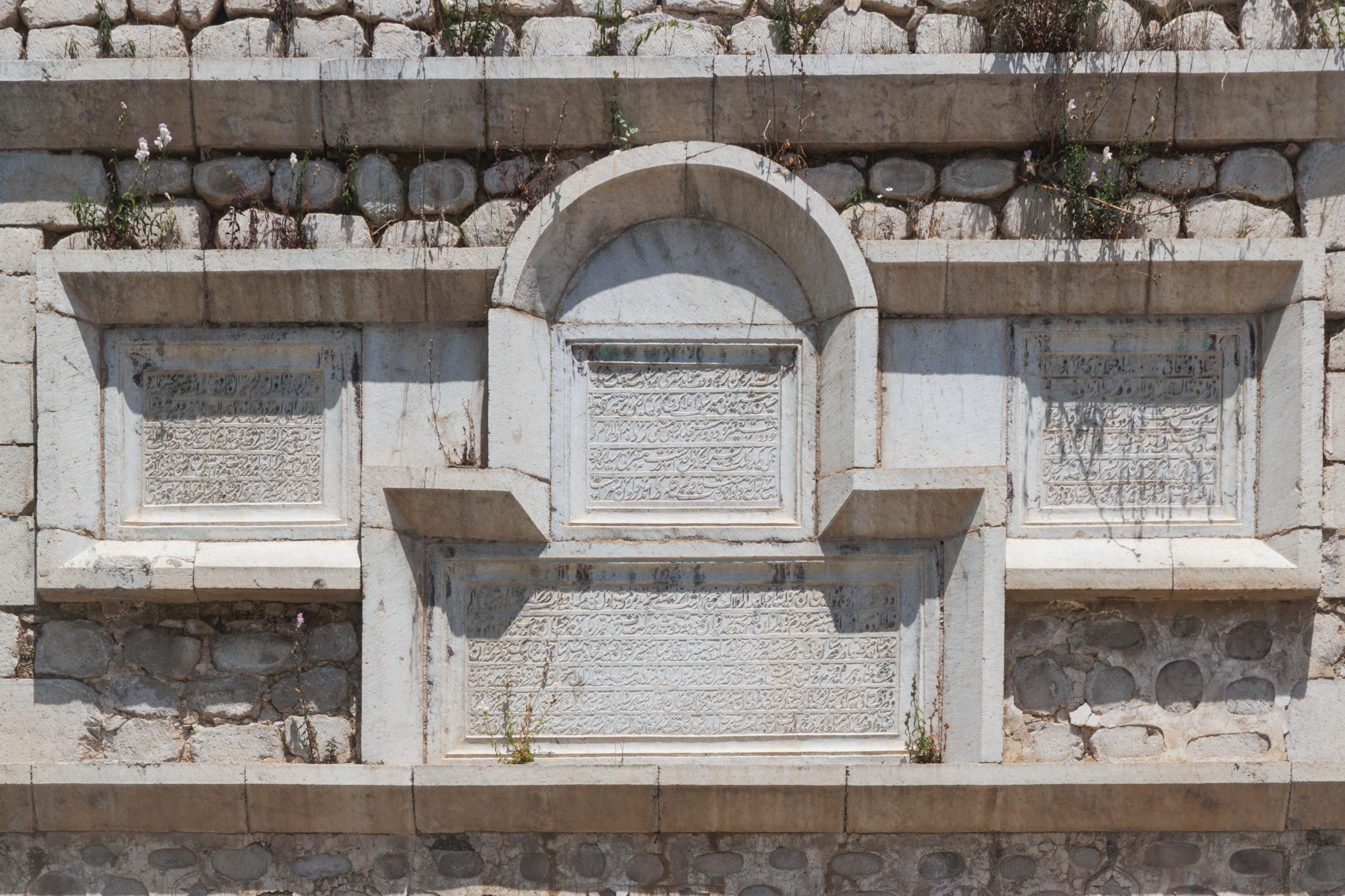 Arabic script inscriptions on the building. Shushi/Shusha, Nagorno-Karabakh.